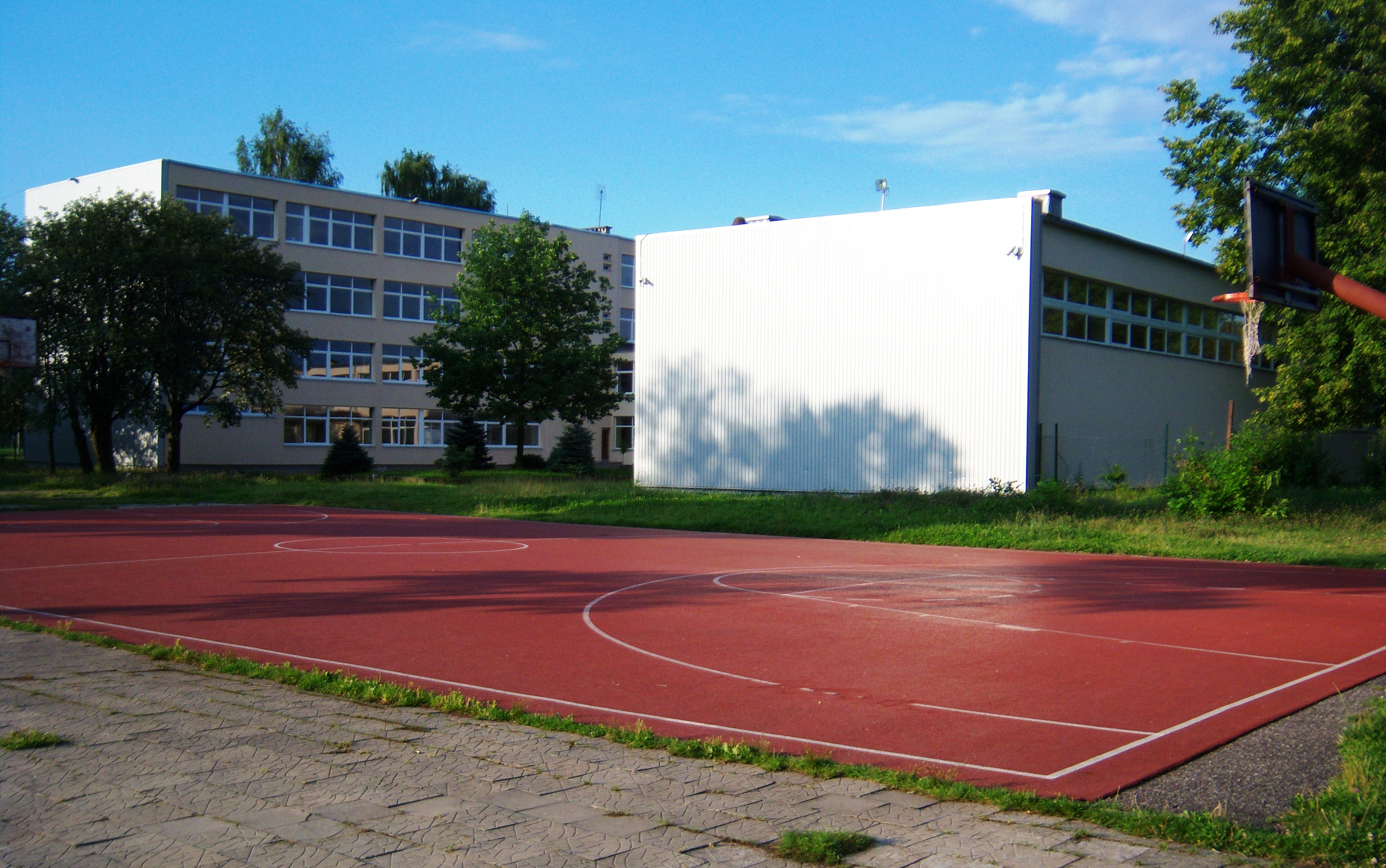 Juozas Urbšys Catholic Secondary School, Kaunas, Lithuania